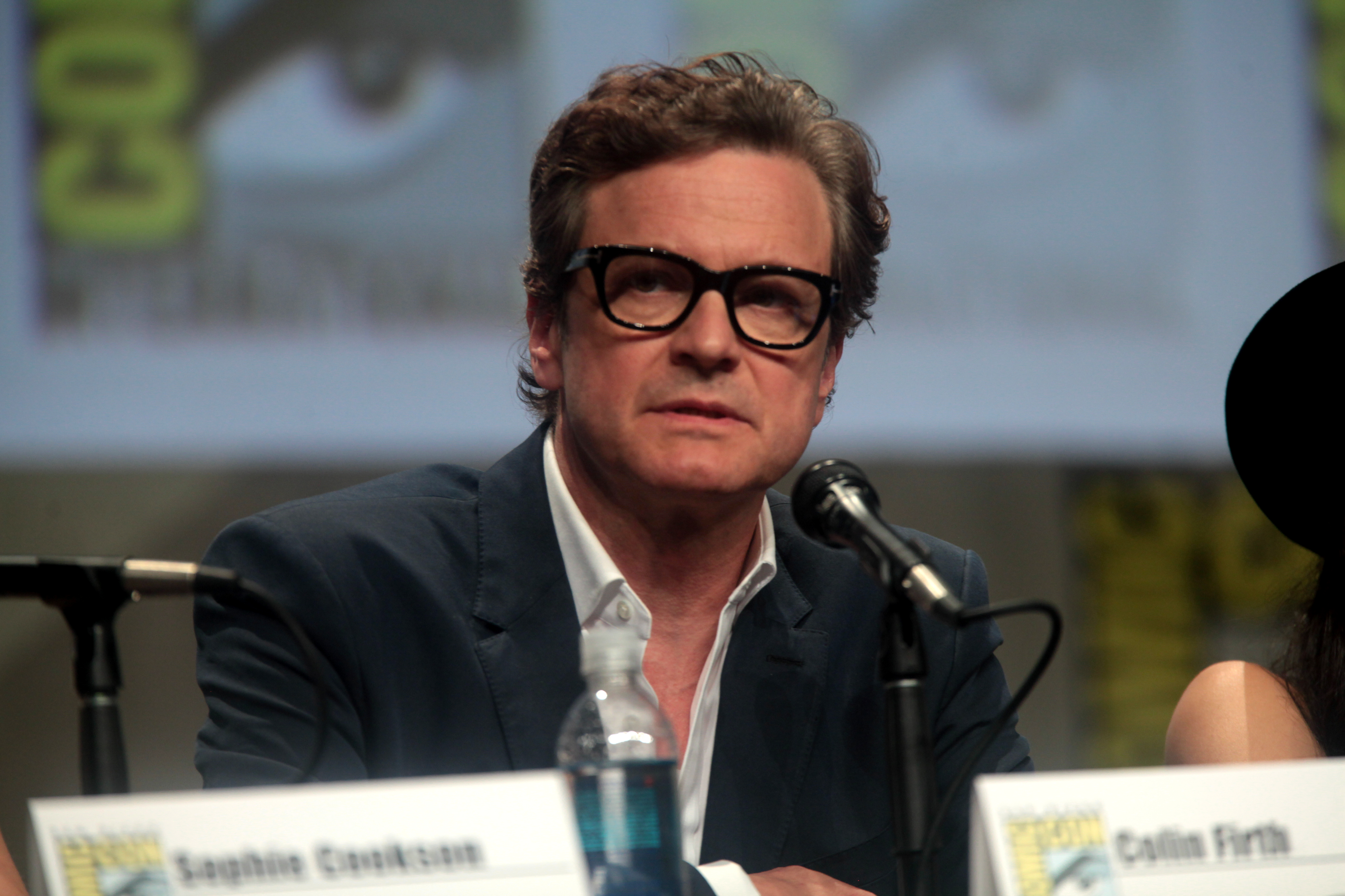 Colin Firth speaking at the 2014 San Diego Comic Con International, for "Kingsman: The Secret Service", at the San Diego Convention Center in San Diego, California on July 25, 2014